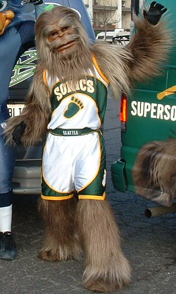 Squatch, pictured here in 2005, was the mascot of the Seattle SuperSonics NBA basketball team from 1993-2008.